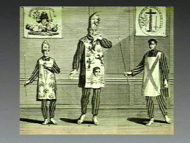 The standards and criminal habits used by the Inquisition in the Dominions of Spain & Portugal. Engraving, 1748. Iconographic Collections